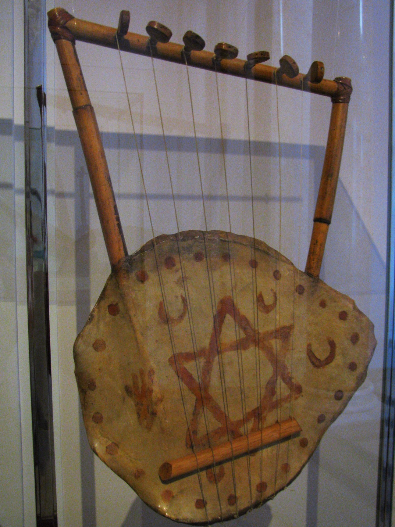 Ehtiopian Kissar, 19th century, from tortoise shell, kane, and parchment